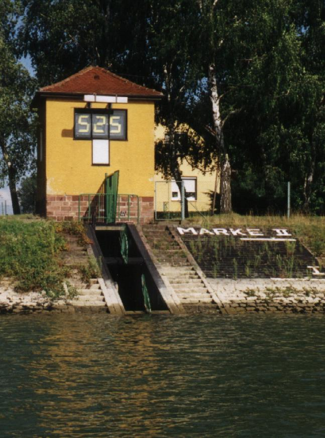 Water-level indicator of the river Rhine near Karlsruhe/Germany (Pegel Maxau)